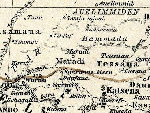 Maradi in Adolf Stielers Handatlas, 1891.